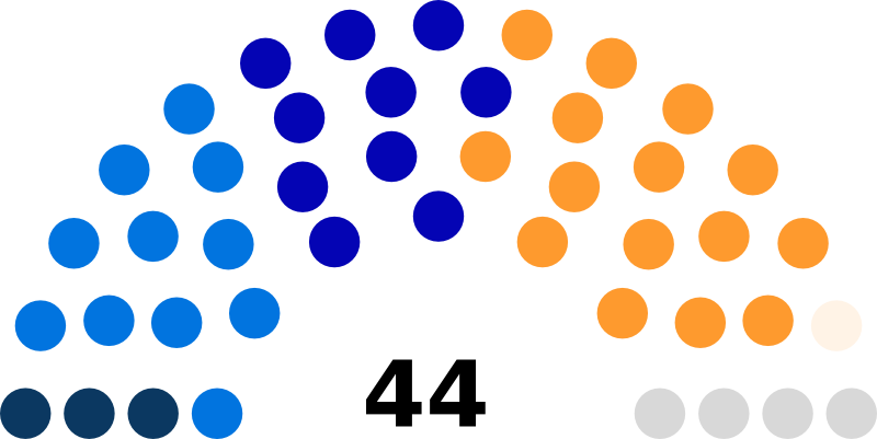 Seats diagramme of Swiss Council of States (1872)